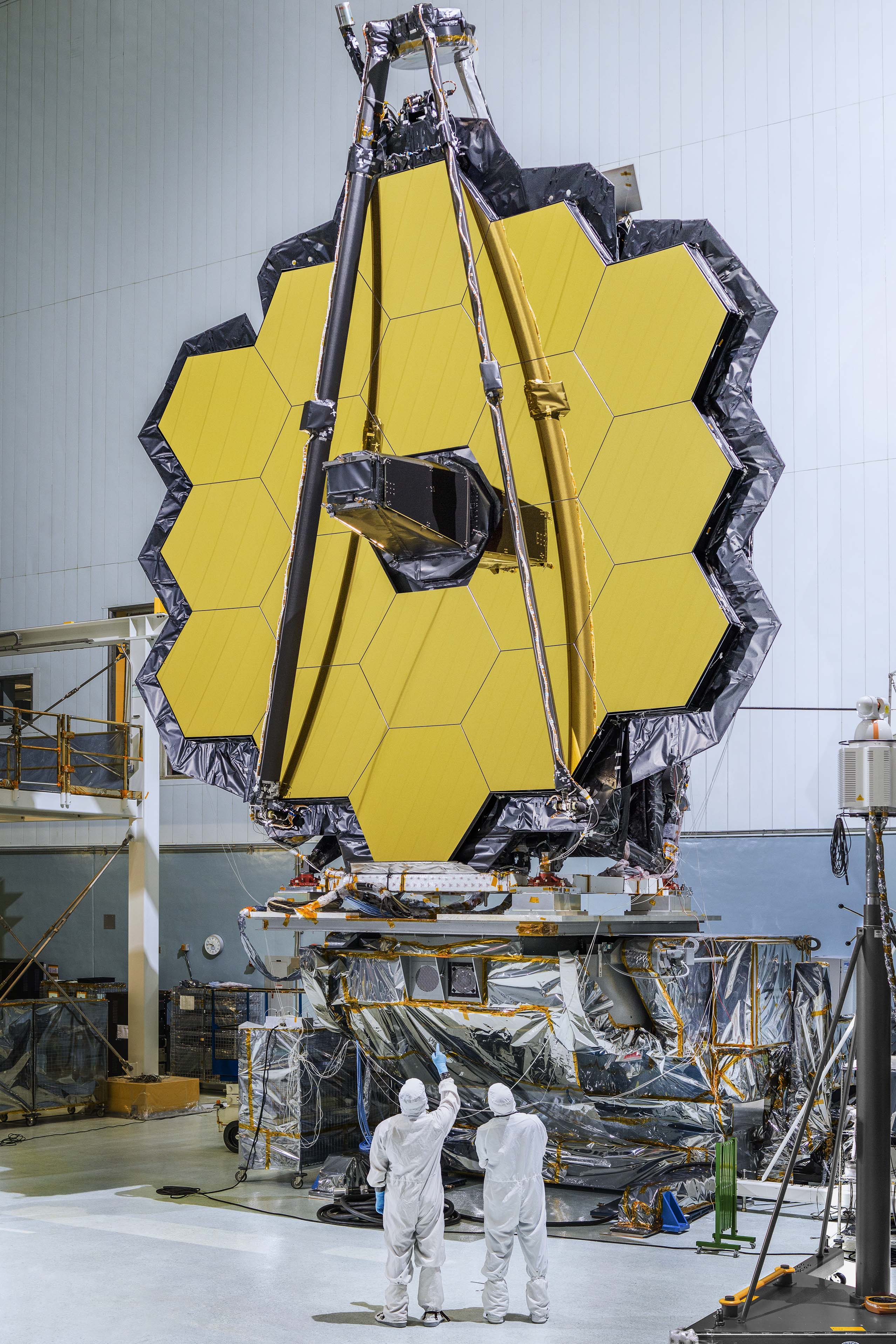 The primary mirror of NASA's James Webb Space Telescope consisting of 18 hexagonal mirrors looks like a giant puzzle piece standing in the massive clean room of NASA's Goddard Space Flight Center in Greenbelt, Maryland. Appropriately, combined with the rest of the observatory, the mirrors will help piece together puzzles scientists have been trying to solve throughout the cosmos. Webb's primary mirror will collect light for the observatory in the scientific quest to better understand our solar system and beyond. Using these mirrors and Webb's infrared vision scientists will peer back over 13.5 billion years to see the first stars and galaxies forming out of the darkness of the early universe. Unprecedented infrared sensitivity will help astronomers to compare the faintest, earliest galaxies to today's grand spirals and ellipticals, helping us to understand how galaxies assemble over billions of years. Webb will see behind cosmic dust clouds to see where stars and planetary systems are being born. It will also help reveal information about atmospheres of planets outside our solar system, and perhaps even find signs of the building blocks of life elsewhere in the universe. The Webb telescope was mounted upright after a "center of curvature" test conducted at Goddard. This initial center of curvature test ensures the integrity and accuracy, and test will be repeated later to verify those same properties after the structure undergoes launch environment testing. In the photo, two technicians stand before the giant primary mirror. For information on the Webb's Center of Curvature test, visit: NASA Goddard Space Flight Center enables NASA’s mission through four scientific endeavors: Earth Science, Heliophysics, Solar System Exploration, and Astrophysics. Goddard plays a leading role in NASA’s accomplishments by contributing compelling scientific knowledge to advance the Agency’s mission.